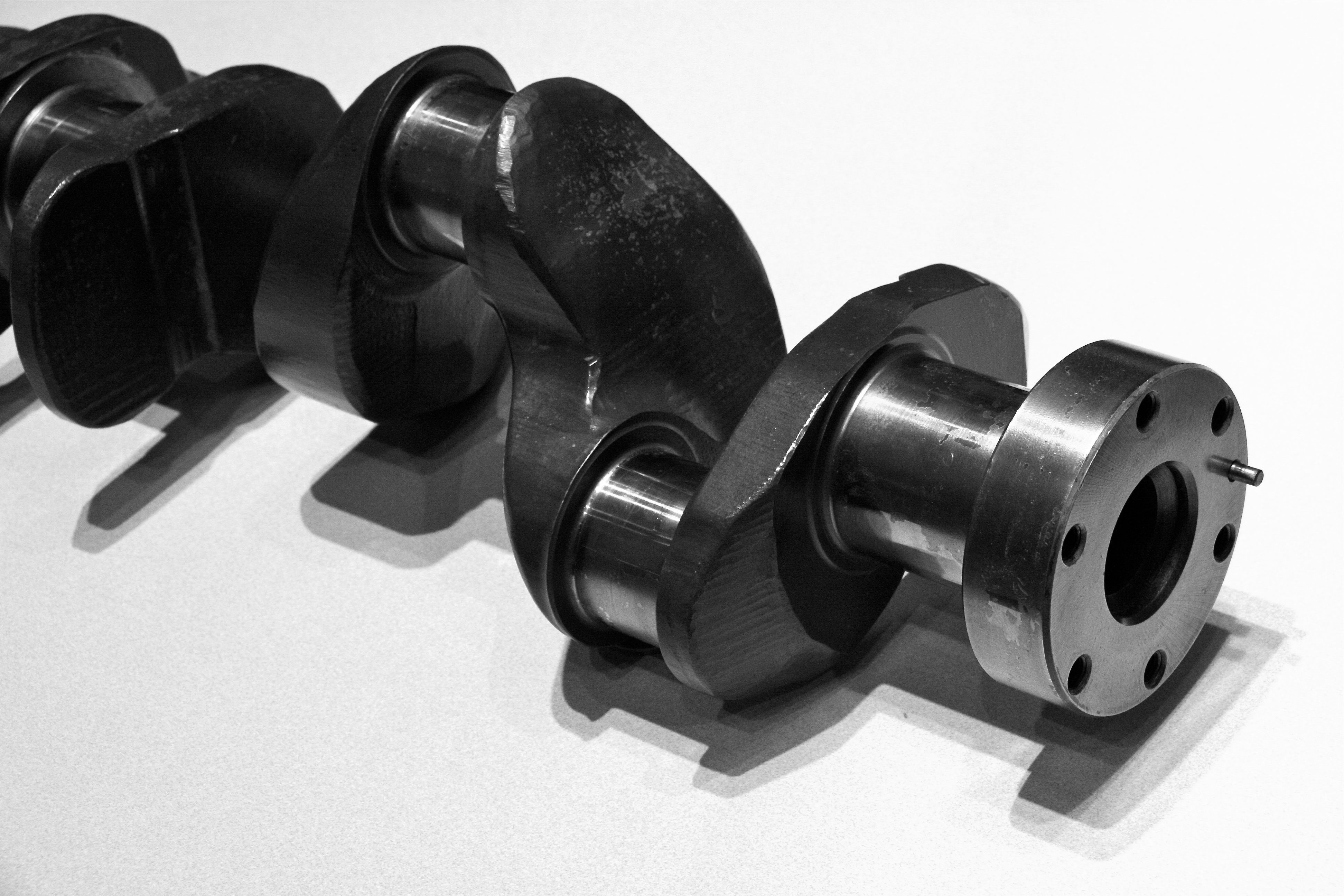 Crankshaft. Sand casted (see the unmachined surfaces).